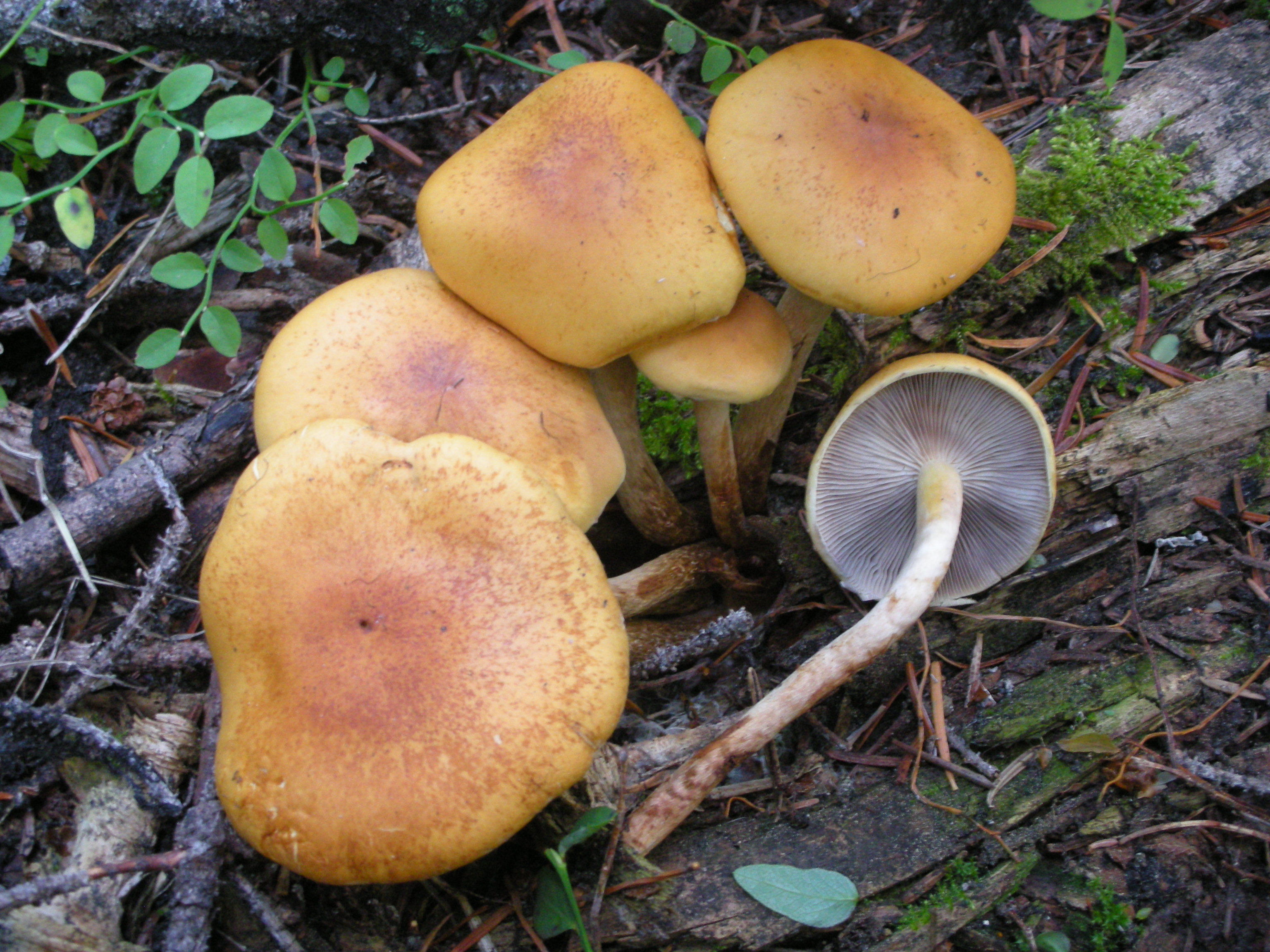 Hypholoma capnoides (Fr.) P. Kumm. Location: McCall, Valley Co., Idaho, USA Observation Notes: Found at the 2008 NAMA Foray. For more information about this, see the observation page at Mushroom Observer.